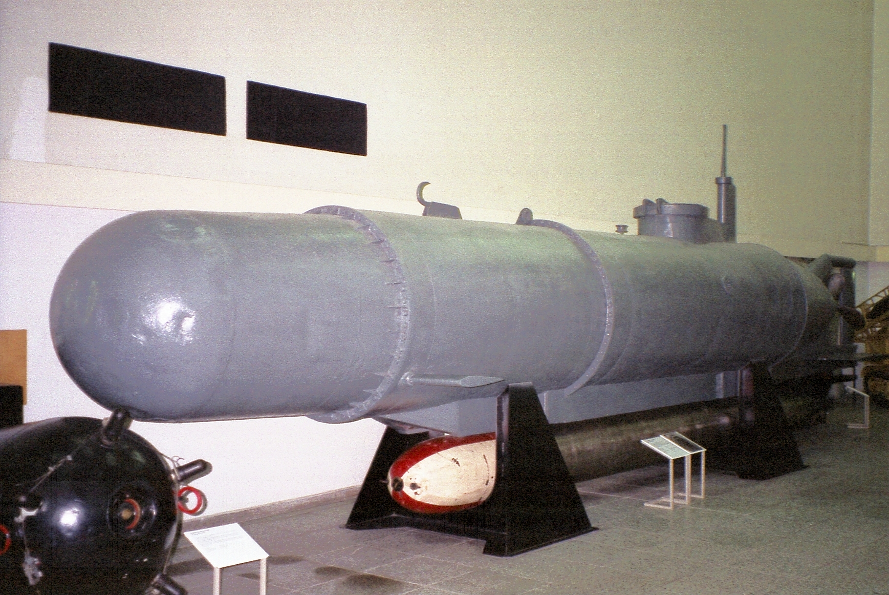 Midget submarine Typ HECHT Dresden 13.10.96